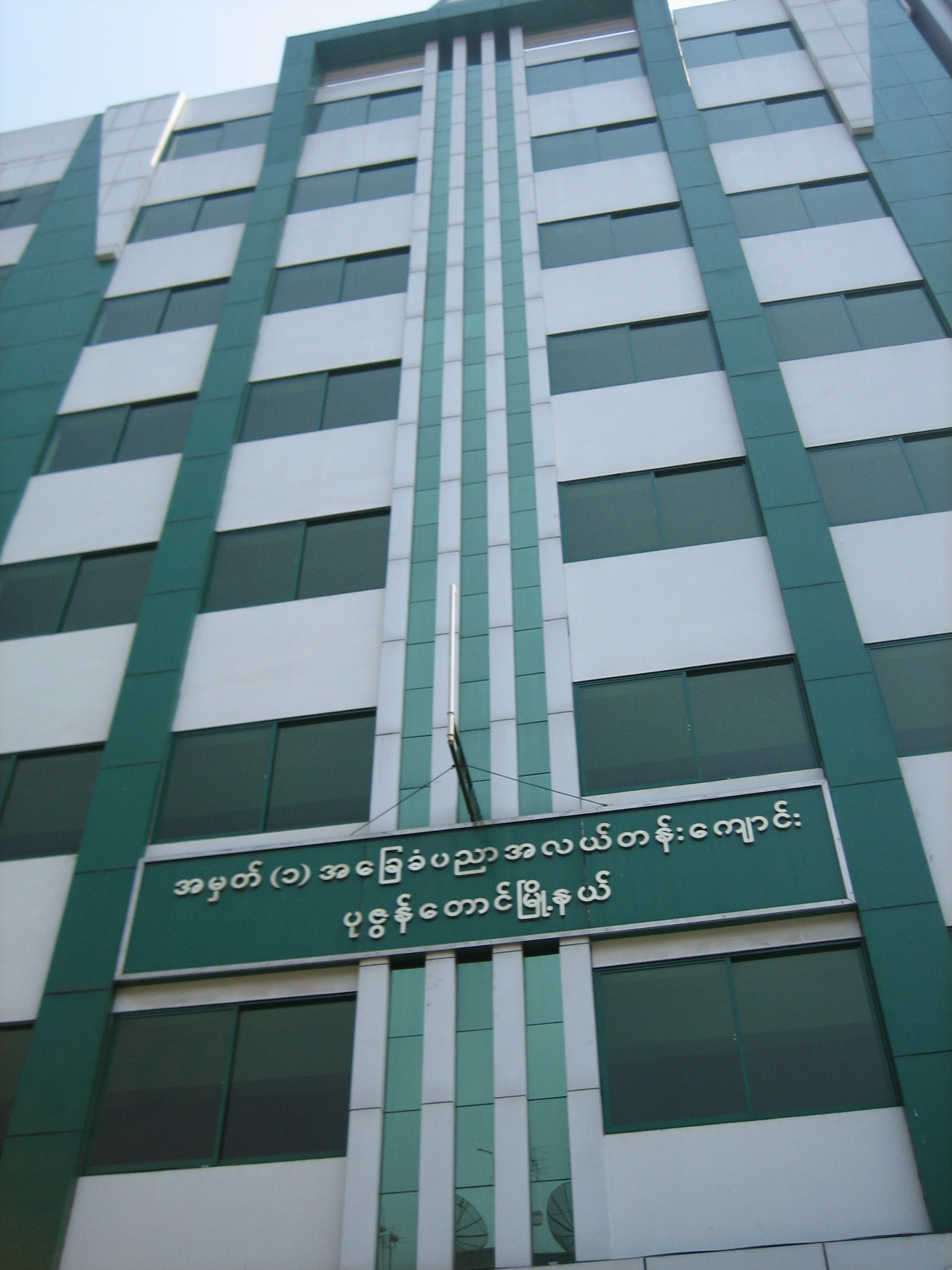 A middle school in Pazundaung Township, Yangon, Myanmar